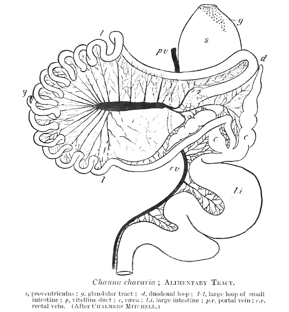 Digestive tract of Chauna chavaria